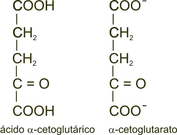 cotoglutaric acid and cetoglutarate formula jpg